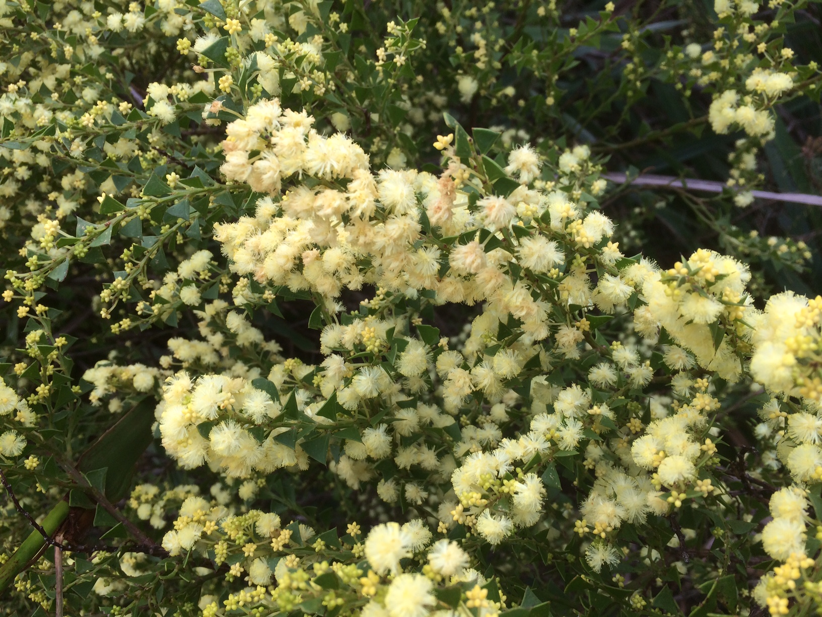 A. littorea flowers and foliage